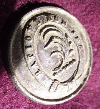 Small Family Motto Button Found at Dirnanean, Scotland. Bears the erect palm surrounded by the Small family motto. The button was found in a garden plot on the Dirnanean estate, Scotland.